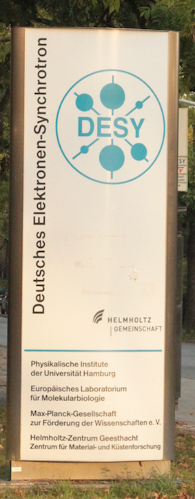 Sign at the entrance of the campus of Deutsches Elektronen-Synchrotron in Hamburg.